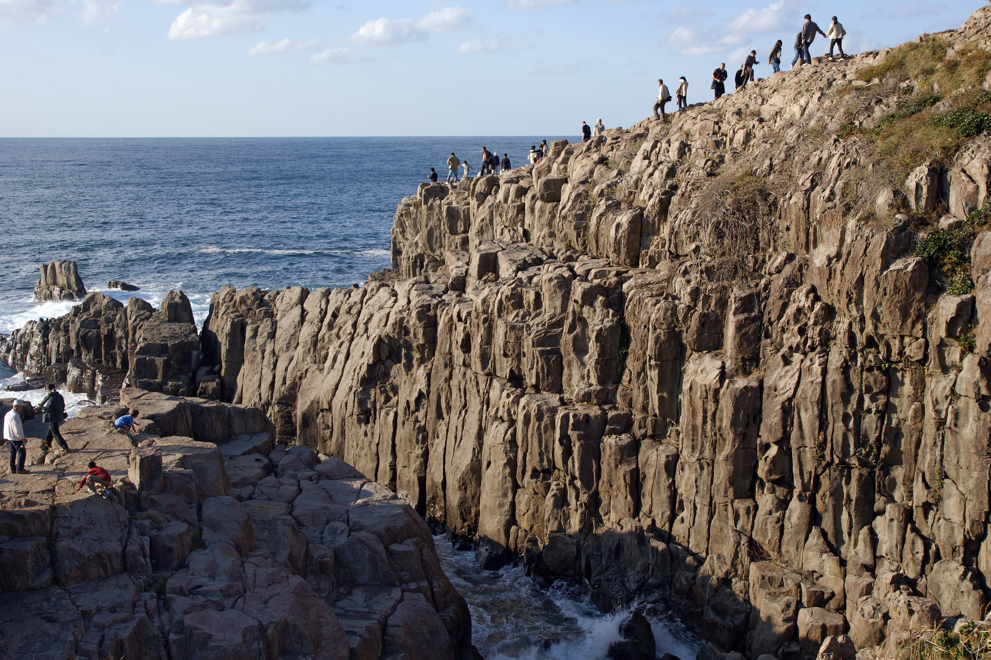 Tojinbo, Sakai, Fukui prefecture, Japan